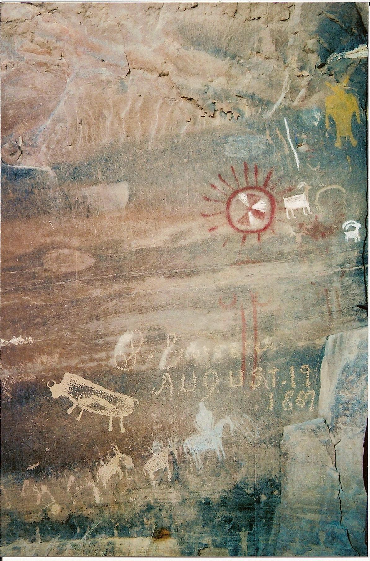 Rock art panel in Nine Mile Canyon, Utah, showing Archaic and Fremont petroglyphs (including the Fremont "pregnant buffalo"), later Ute carving and painting, and a modern-era signature. This archaeological site, identified by the Smithsonian trinomial code 42Cb974, is listed on the National Register of Historic Places.